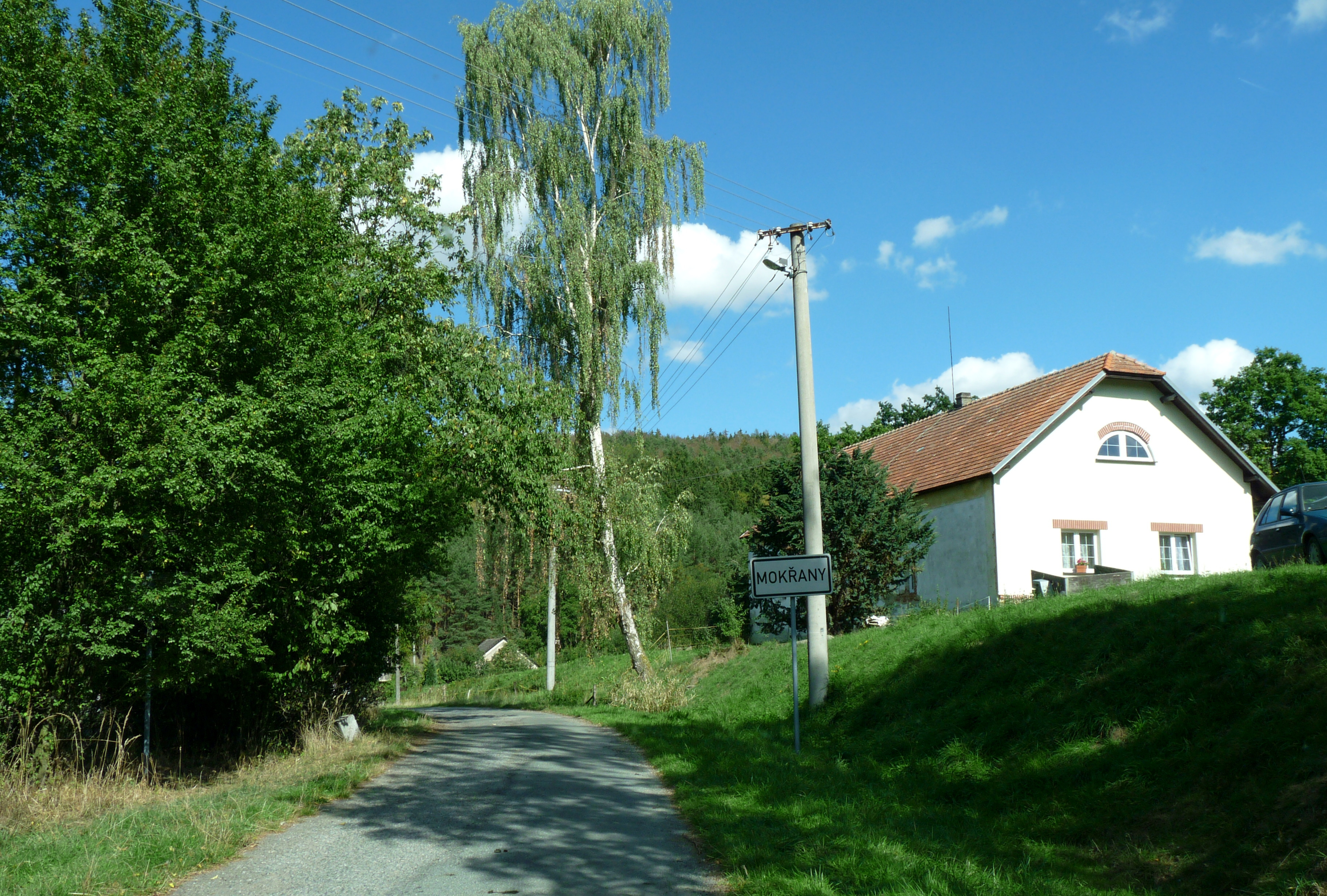 South-western part of the village of Mokřany ,Benešov District, Central Bohemian Region, Czech Republic.